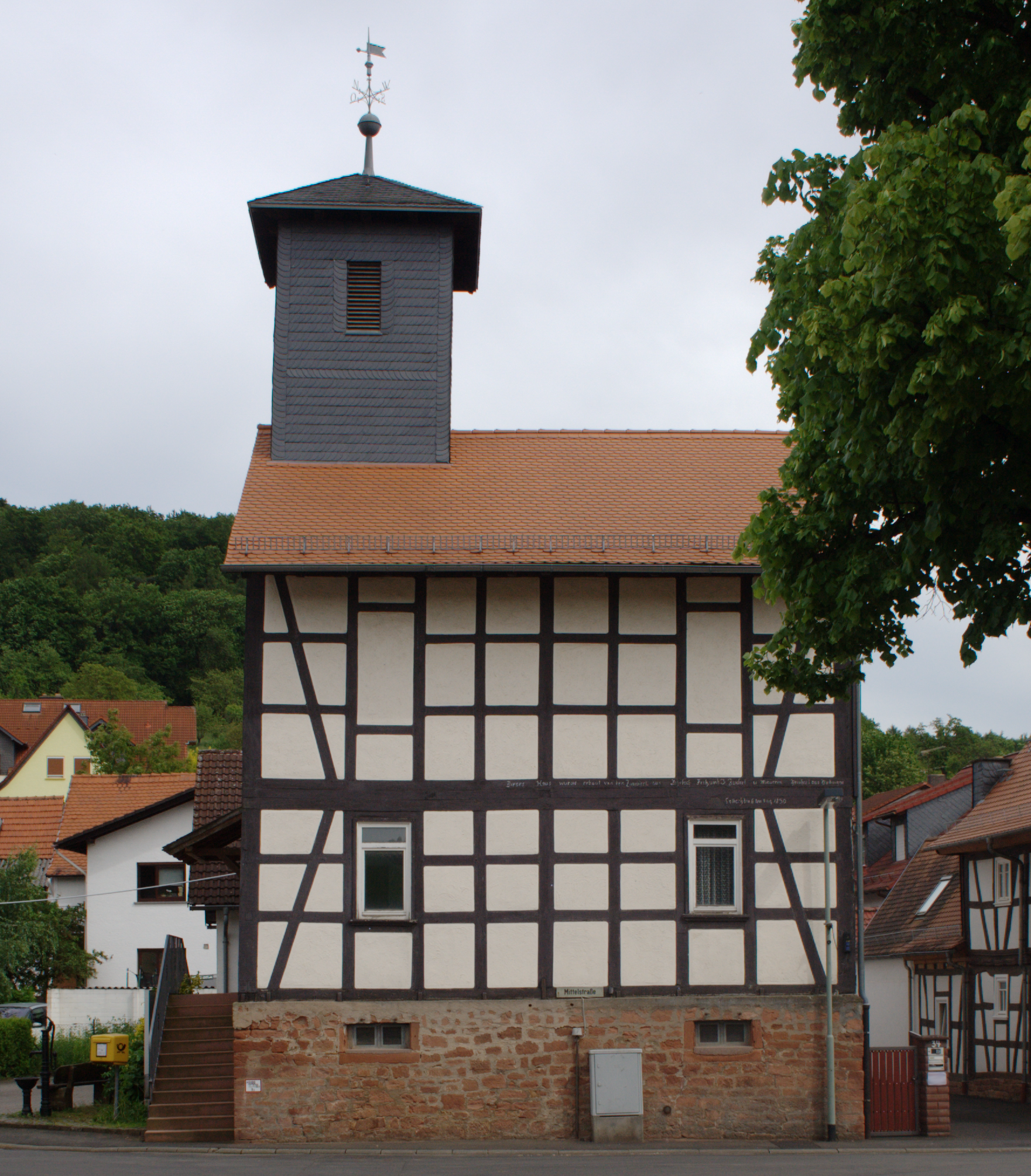 Half-timbered building in Buedingen Calbach Mittelstrasse 3 / Hesse / Germany